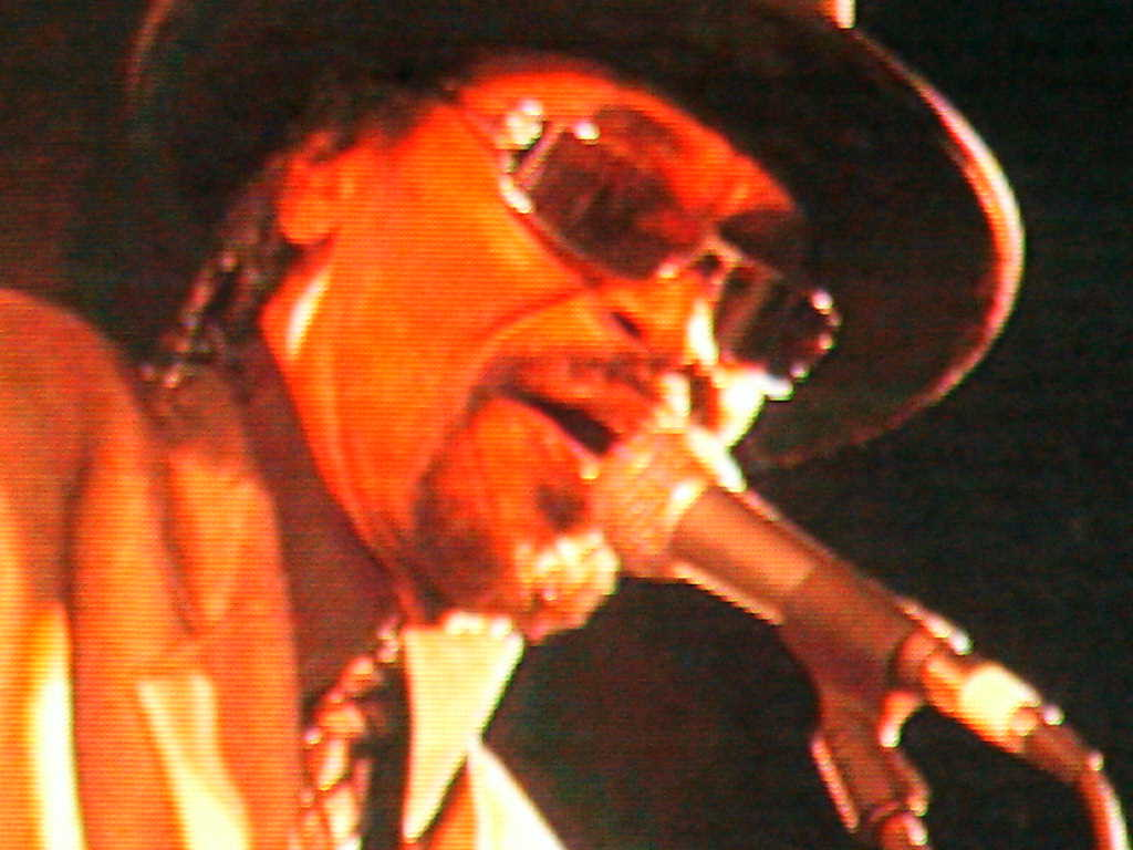 Go go musician Chuck Brown performing at the Duke Ellington Jazz Festival, National Mall, Washington, D.C. October 1, 2005 This is a photo of the live video monitor that was set up at the concert. Photo taken and uploaded by Gyrofrog.